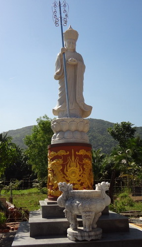 U Minh Giáo Chủ